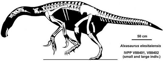 Skeletal reconstruction of Alxasaurus elesitaiensis.